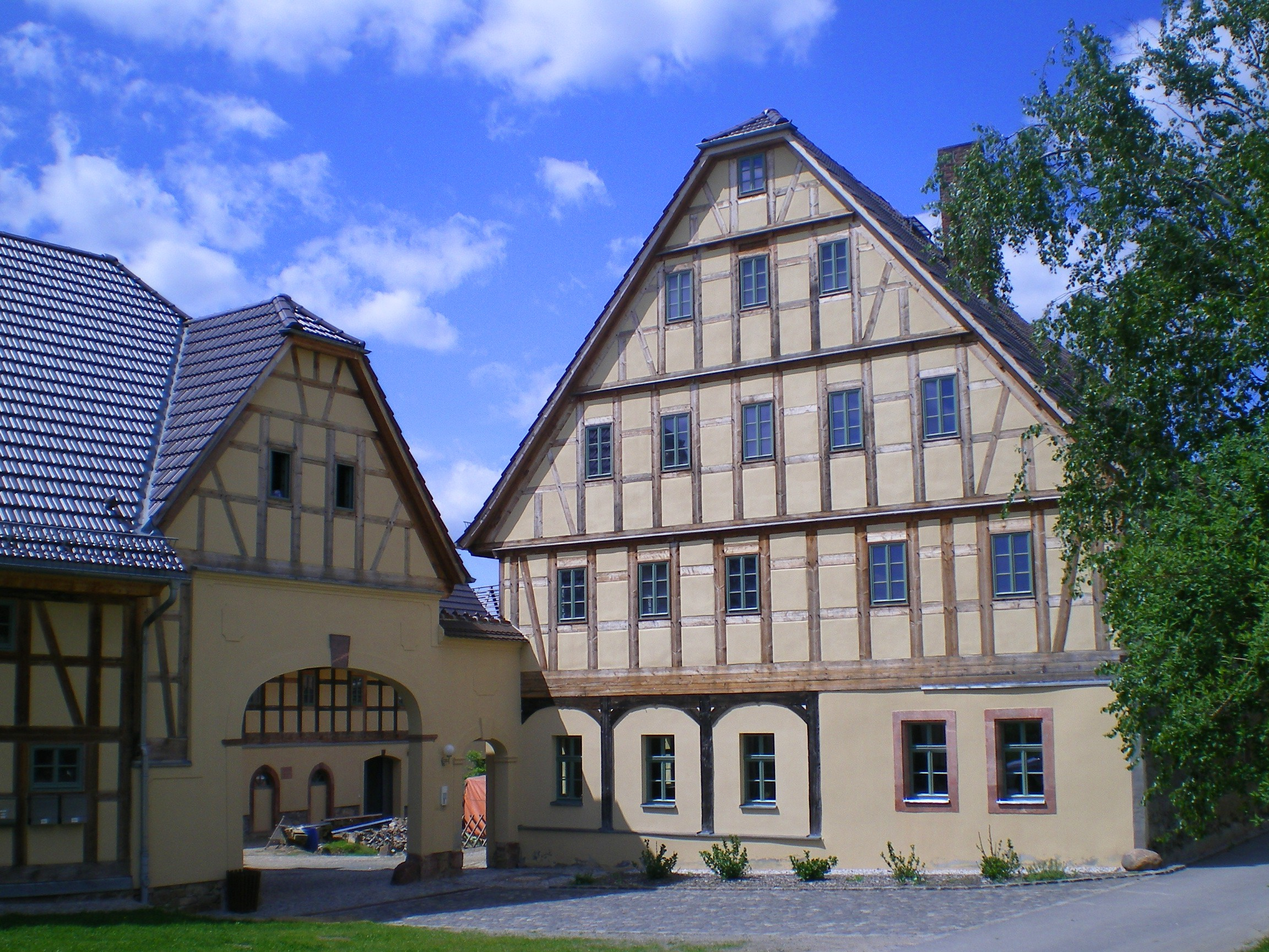 Timber framing estate in Göpfersdorf-Garbisdorf in district Altenburger Land/Thuringia